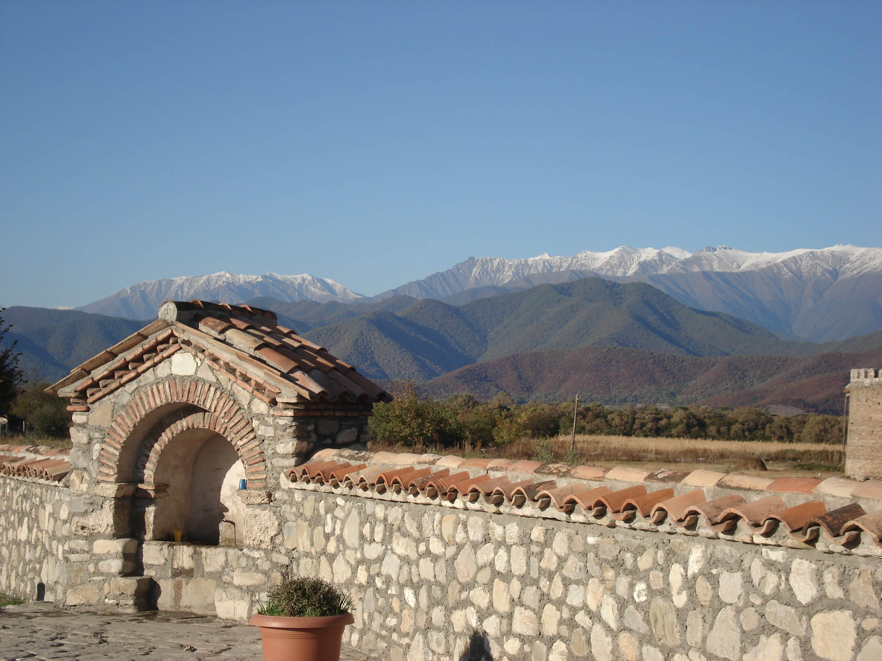 კახეთის კავკასიონი